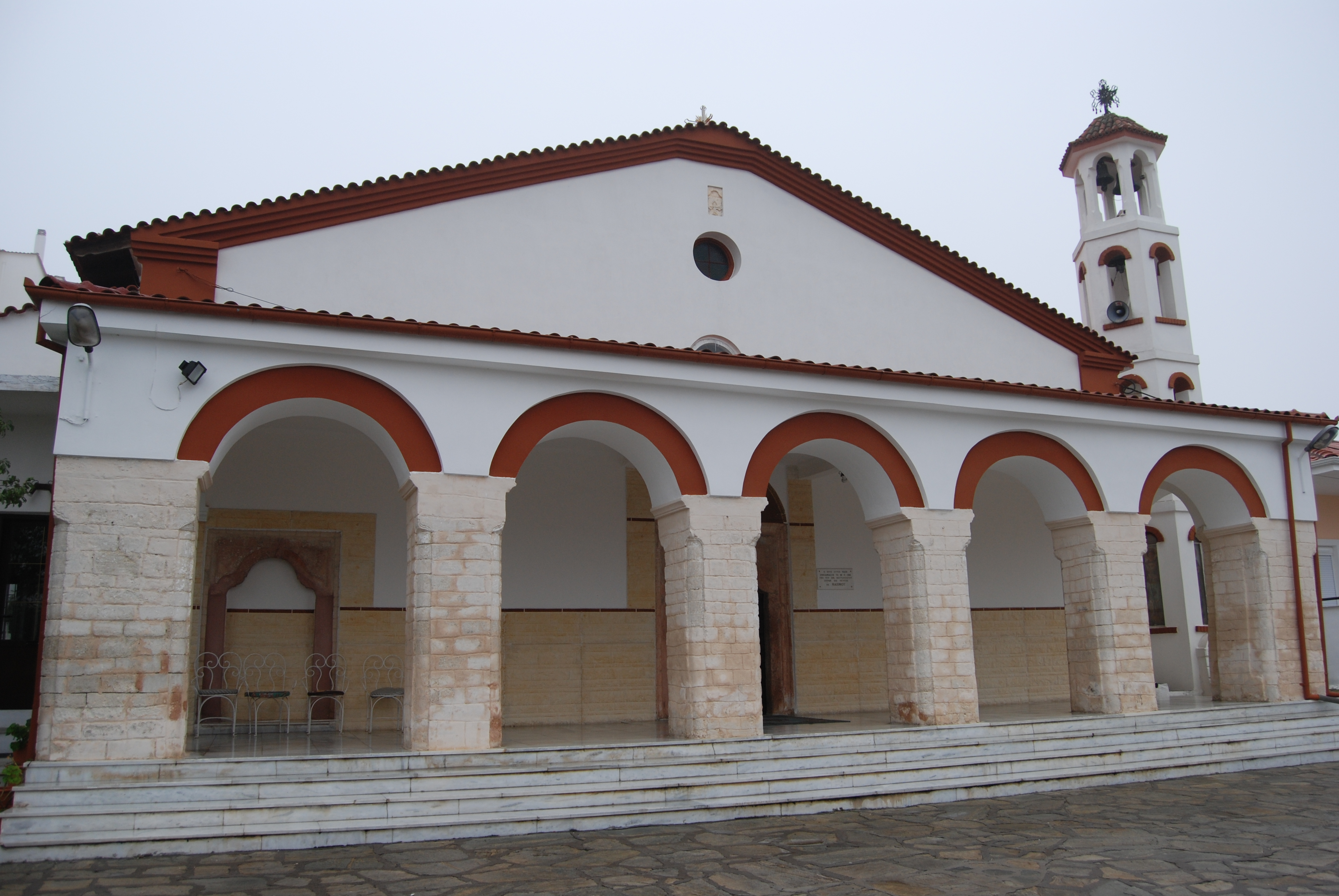 Saint Pantaleon Church, Serres